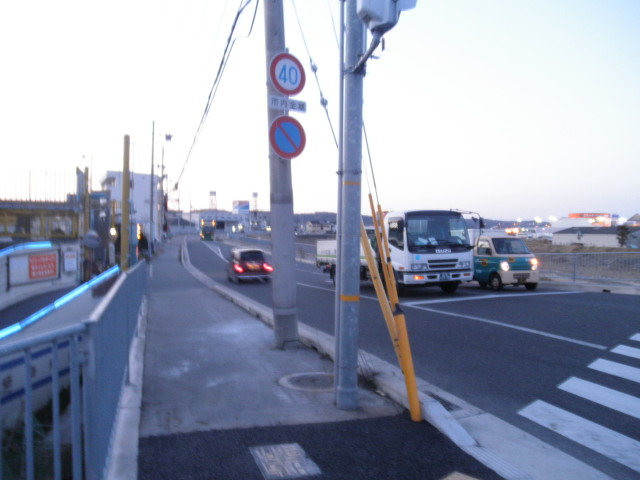 Tamatsutown Deai Nishi-ku Kobecity Hyogopref Hyogoprefectural road 377 Nomura Akashi line